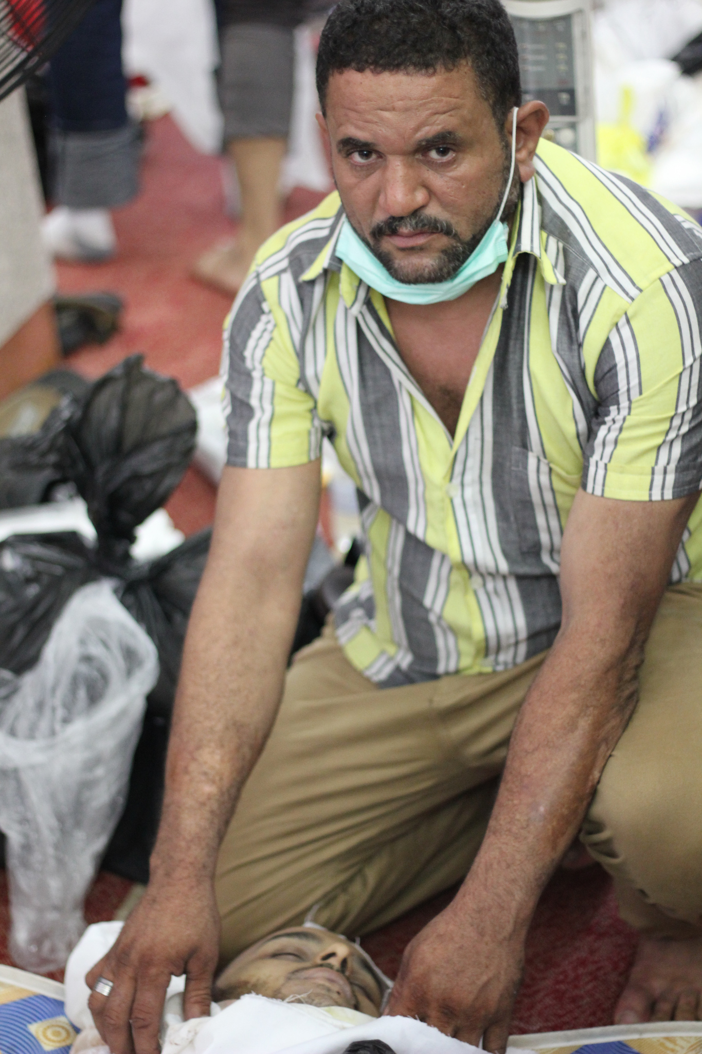 Rabaa field hospital; published description in What really happened on the day more than 900 people died in Egypt - The story of a massacre, GlobalPost, 26 February 2014, by Louisa Loveluck, archived from the original on 18 July 2014: "A medical worker looks up. Asmaa Shehata, mentioned above, captured this image in between photographing the corpses in Rabaa's field hospital as the violence progressed."